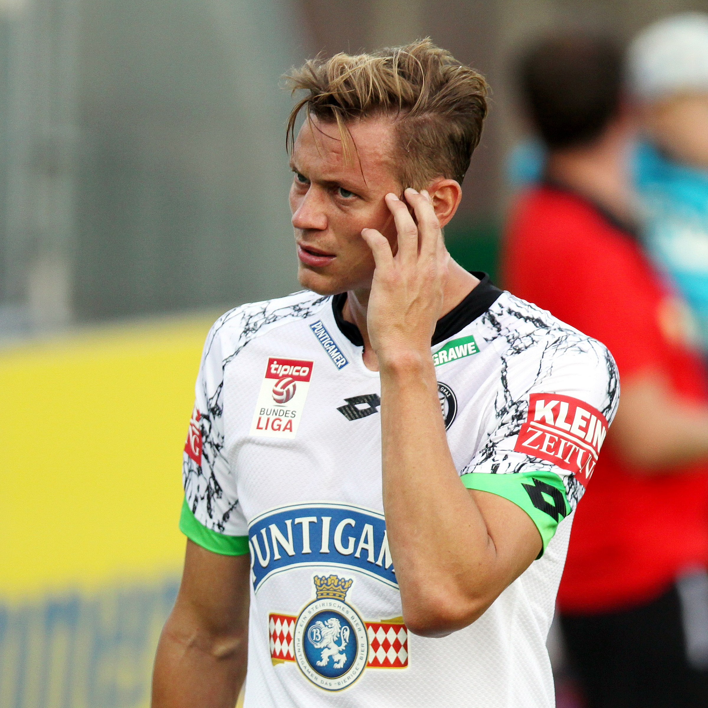 Match of the Austrian Football Bundesliga – SV Mattersburg (green shirts) vs. SK Sturm Graz (white shirts) on 2015-09-13 in Pappelstadion, Mattersburg – The photo shows Roman Kienast